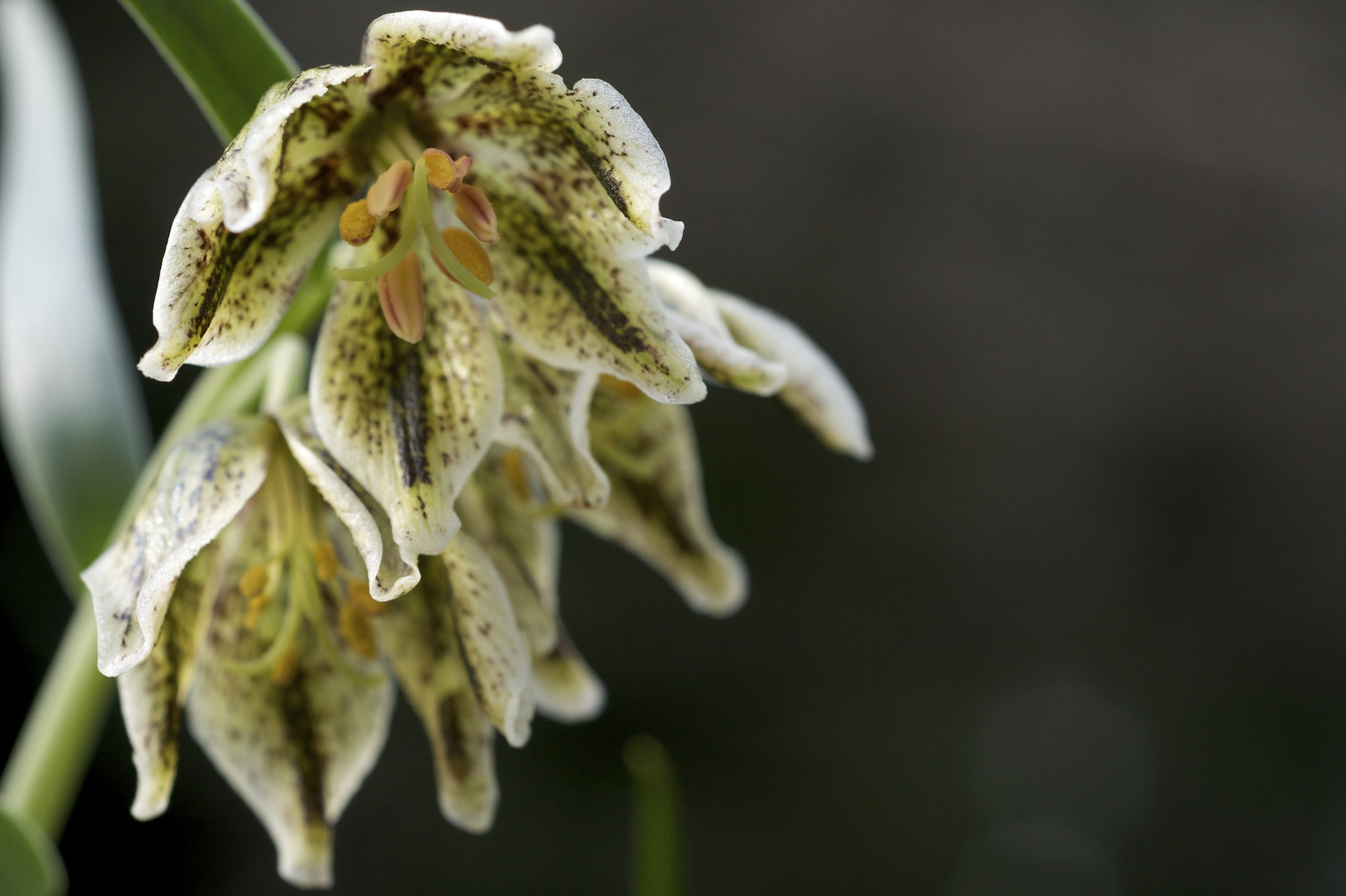 Fritillaria purdyi - a species from California. Photographed at Tilden Regional Parks Botanic Garden, East Bay, San Francisco Bay Region